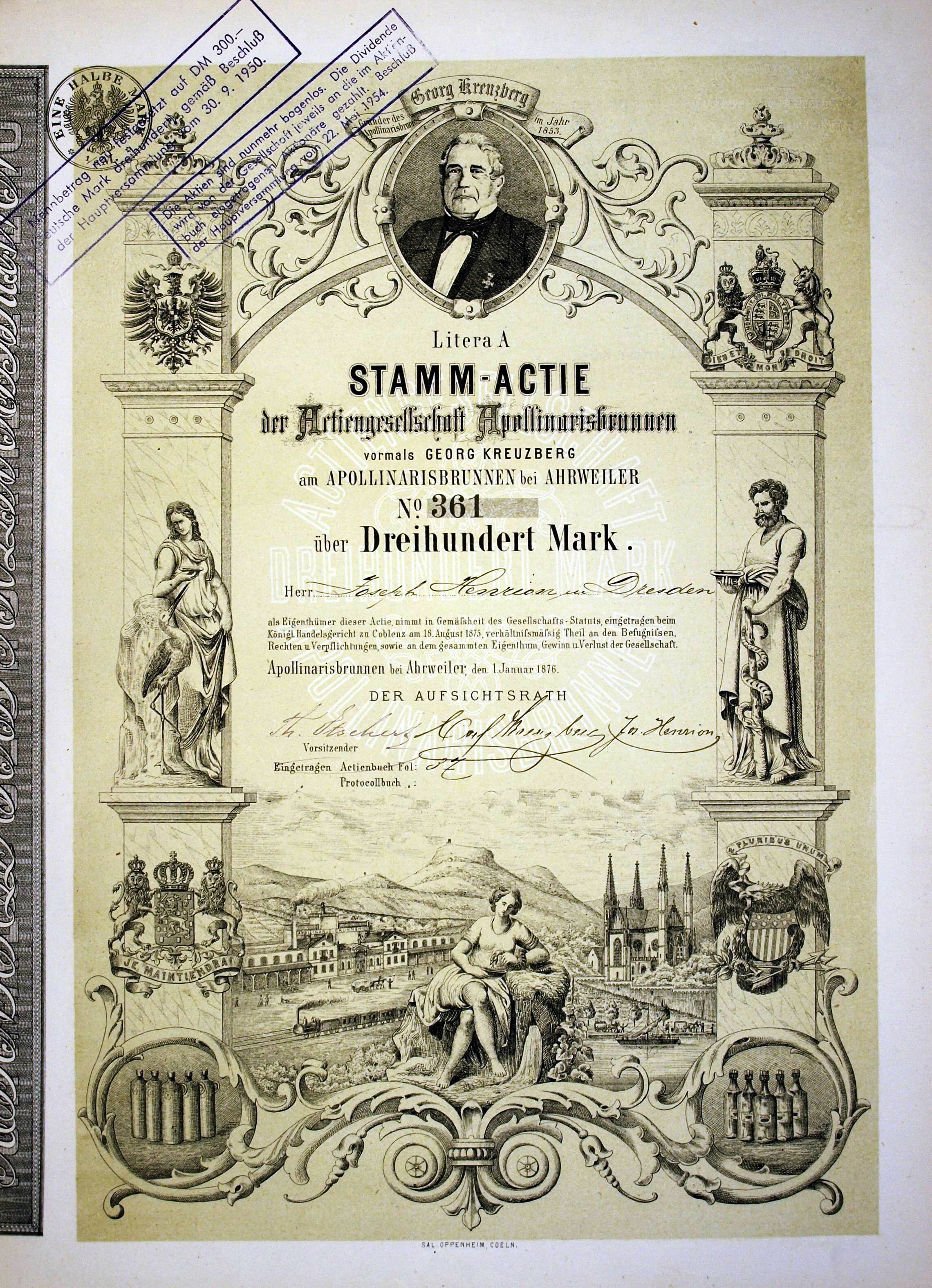 Share of the AG Apollinarisbrunnen vormals Georg Kreuzberg, issued 1. January 1876